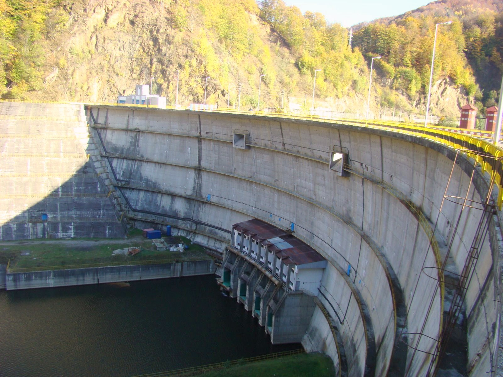 Brădişor dam, Vâlcea county, Romania